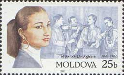 Maria Dragan, Stamp of Moldova